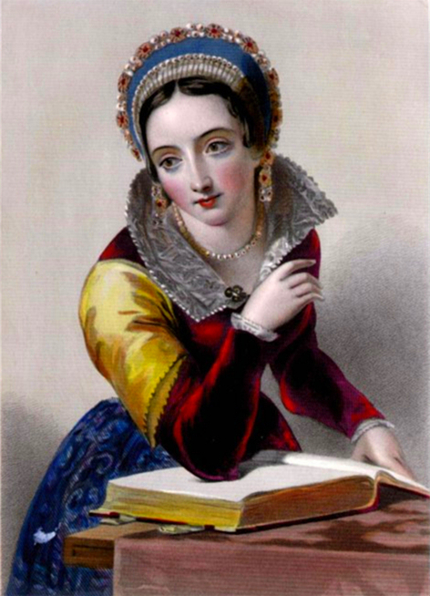 Joan of Navarre, Queen of England